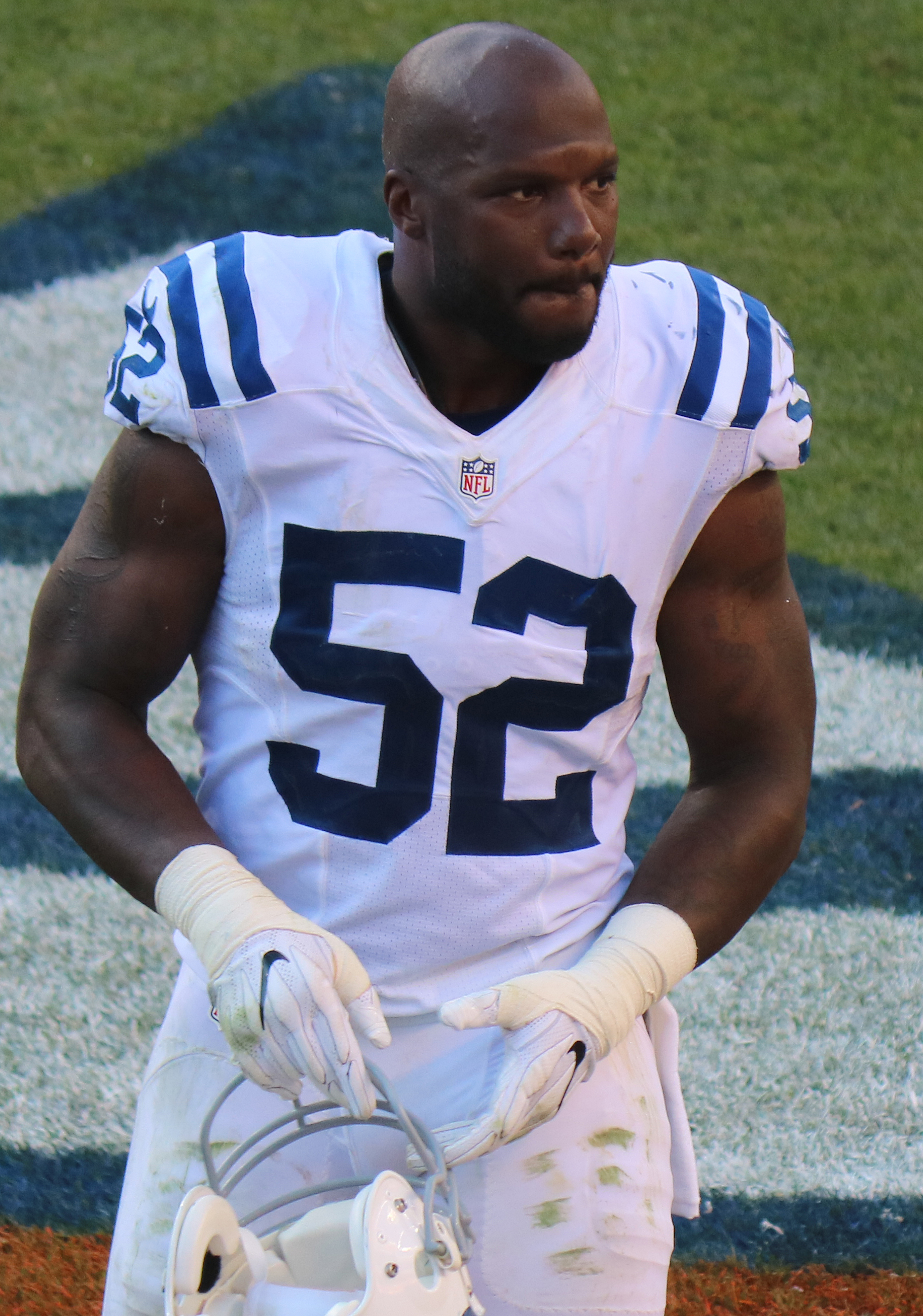 D'Qwell Jackson, a player on the National Football League.